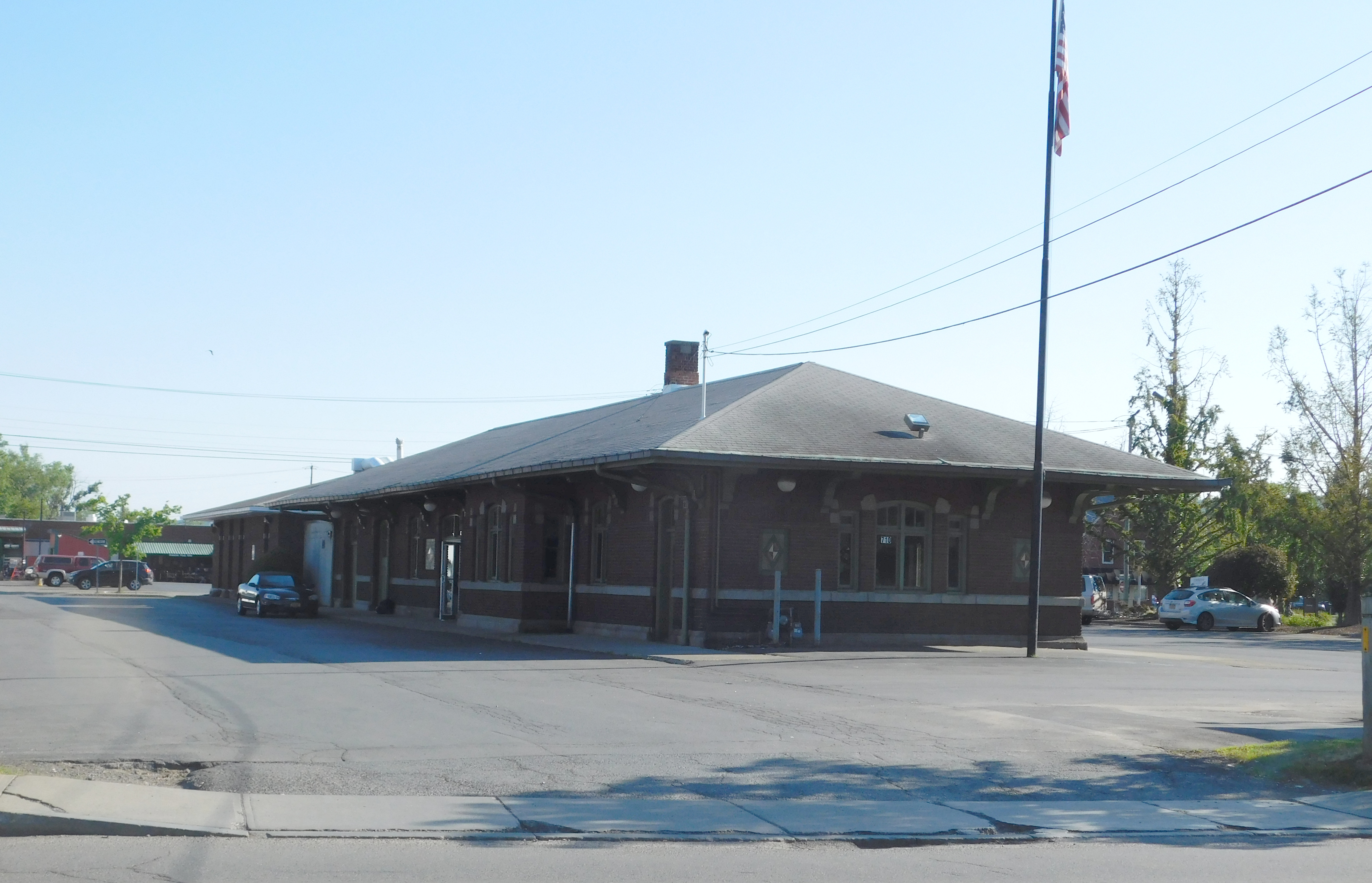 cropped and colors adjusted by the uploader.